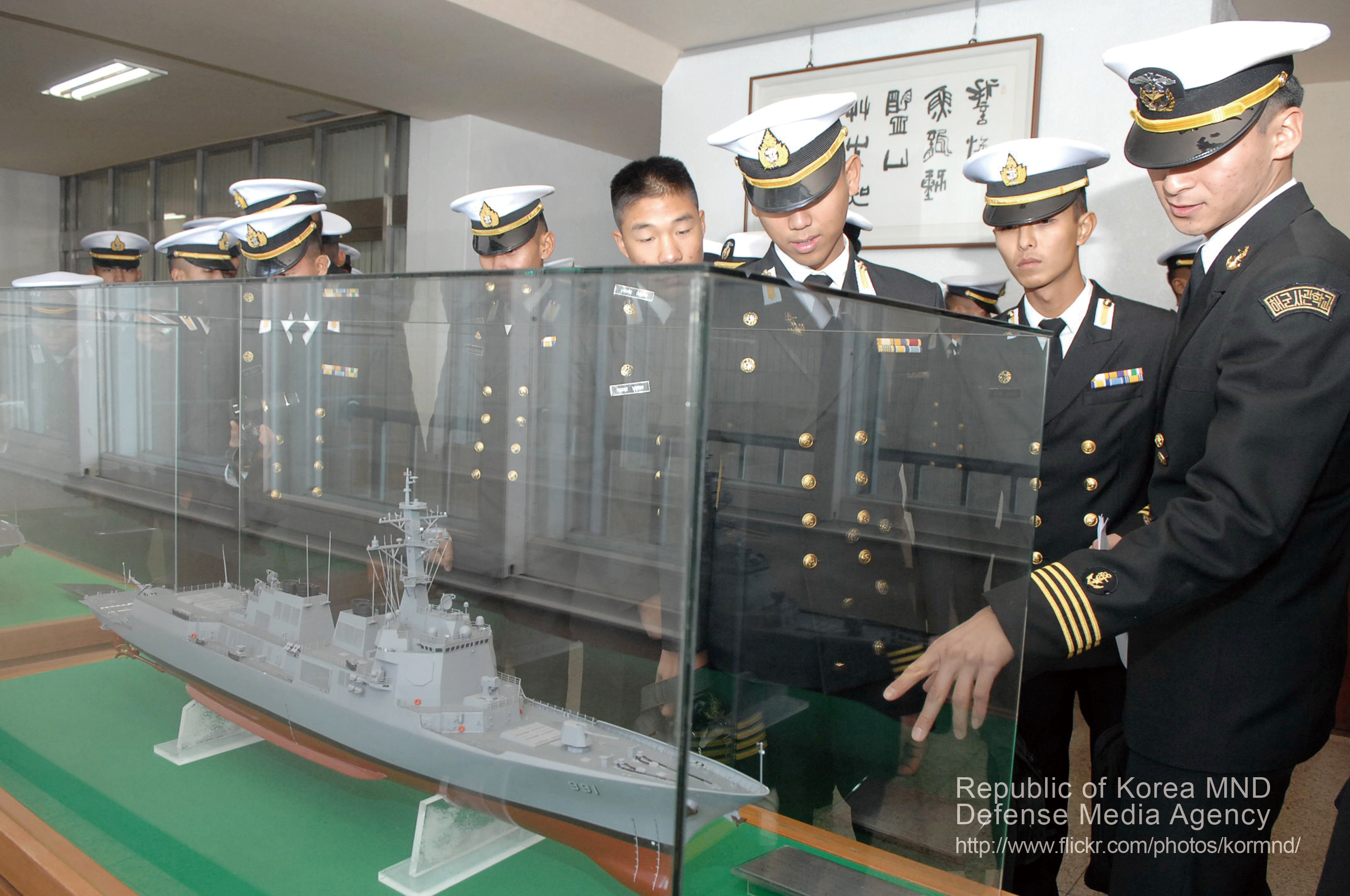 Thailand cadet, who have visited by a friendly exchange program, is looking around museum in Naval Academy in Jin-hae.